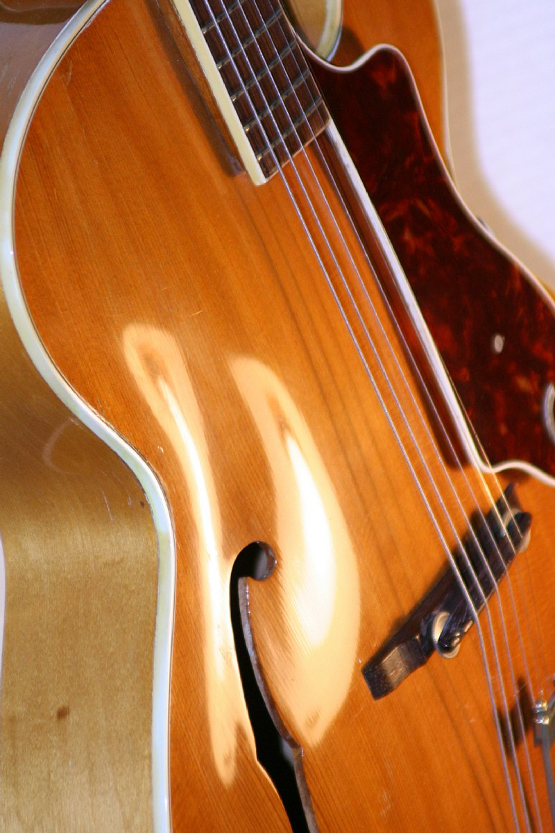 Epiphone Triumph Regent 1951 17 3/8" wide, 25.5" scale, 3 ply binding on top and back, single bound fingerboard, bound peghead, gold plated parts.